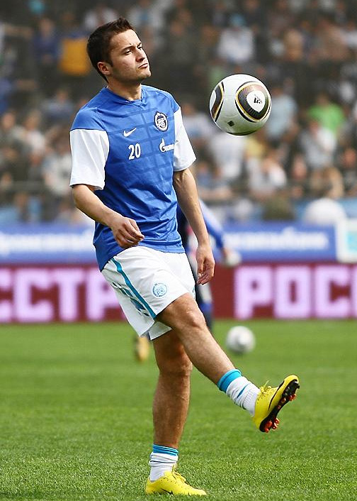 Russian attacking midfielder Viktor Fayzulin warming up